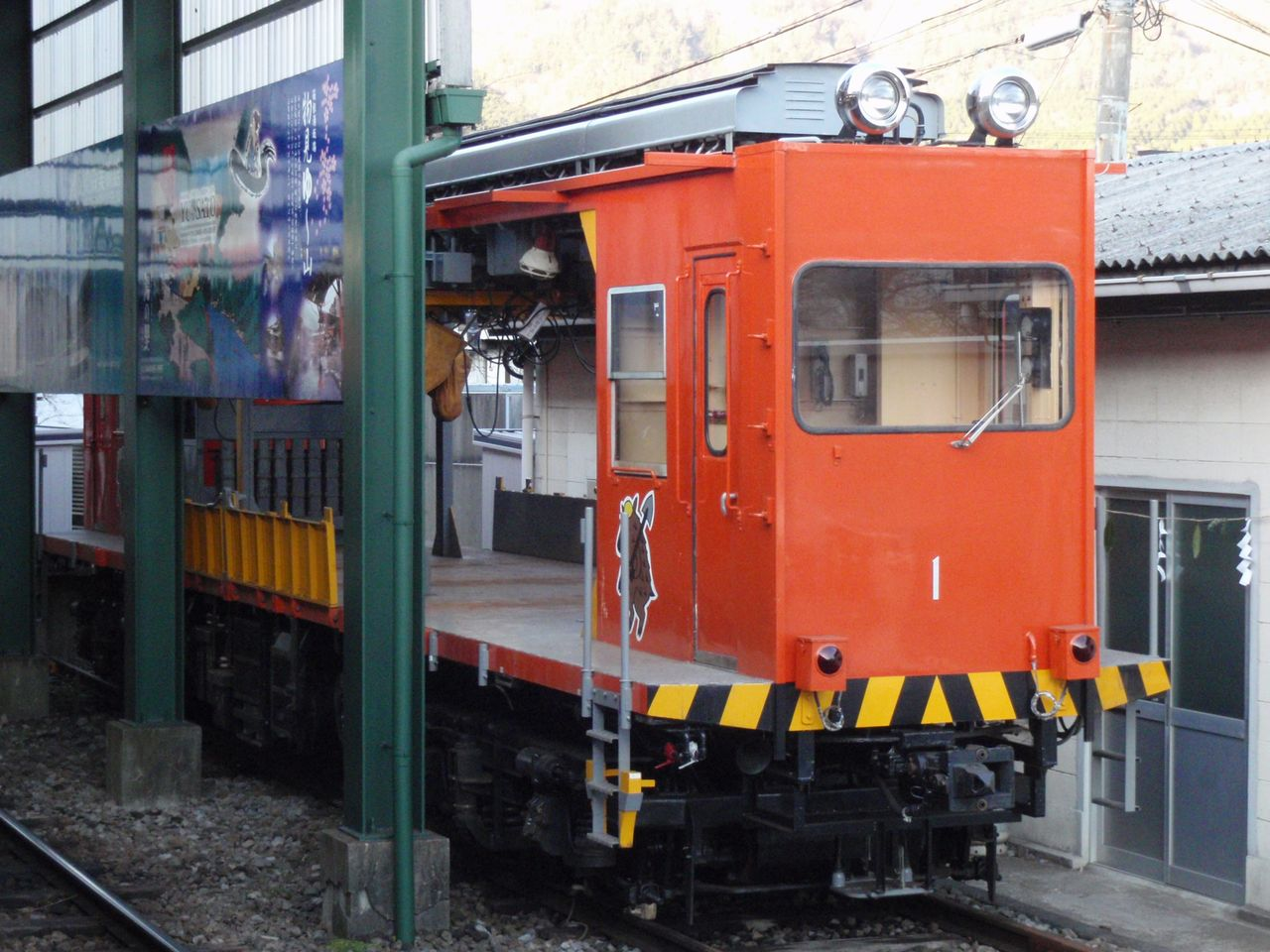 Hakone Tozan Railway Type Moni-1 at Gora Sta.